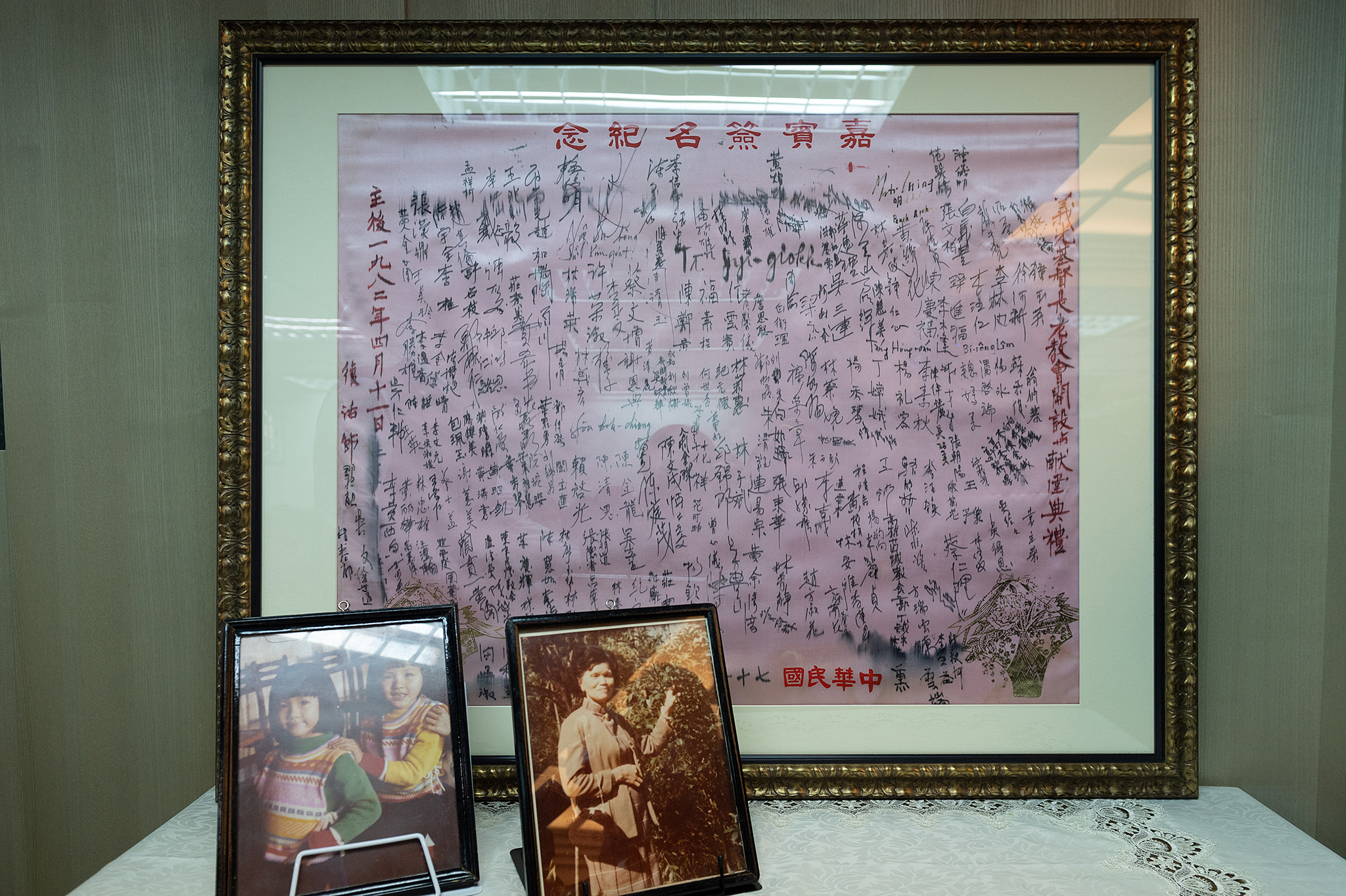 Official Photo by Makoto Lin / Office of the President